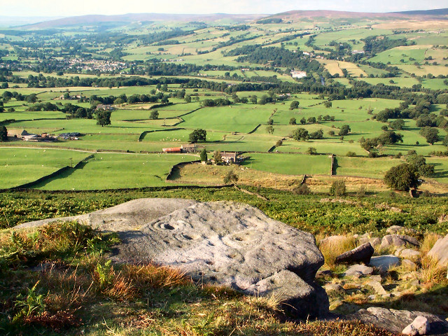 Piper's Crag Stone. Bronze age cup-and-ring marks and other carvings on this outcrop above Wharfedale west of Ilkley. The cup mark to the left has a triple ring.